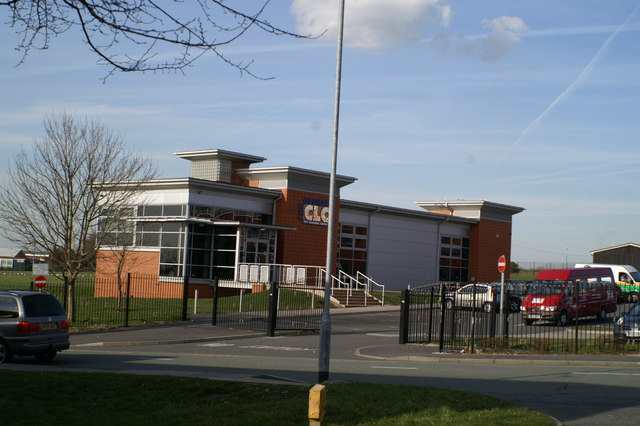 Education, Education, Education. One of the new Technology College at The Grange School